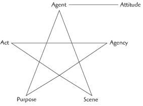 This is a diagram of Dramatism Pentad, which is introduced by Kenneth Burke to describe how people attribute motives.